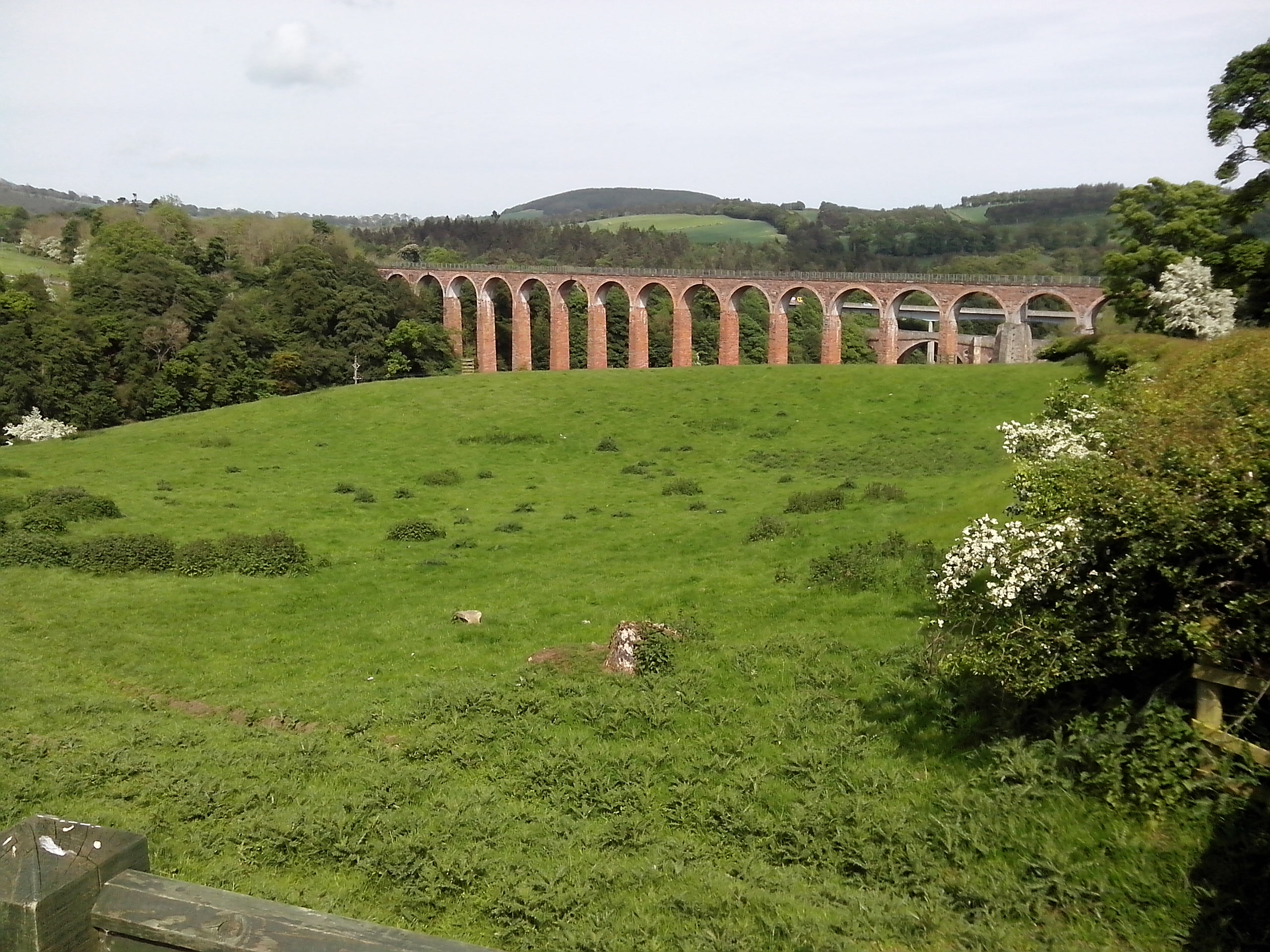 Site of the Roman Trimontium amphitheatre with the Victorian Leaderfoot viaduct in the background.